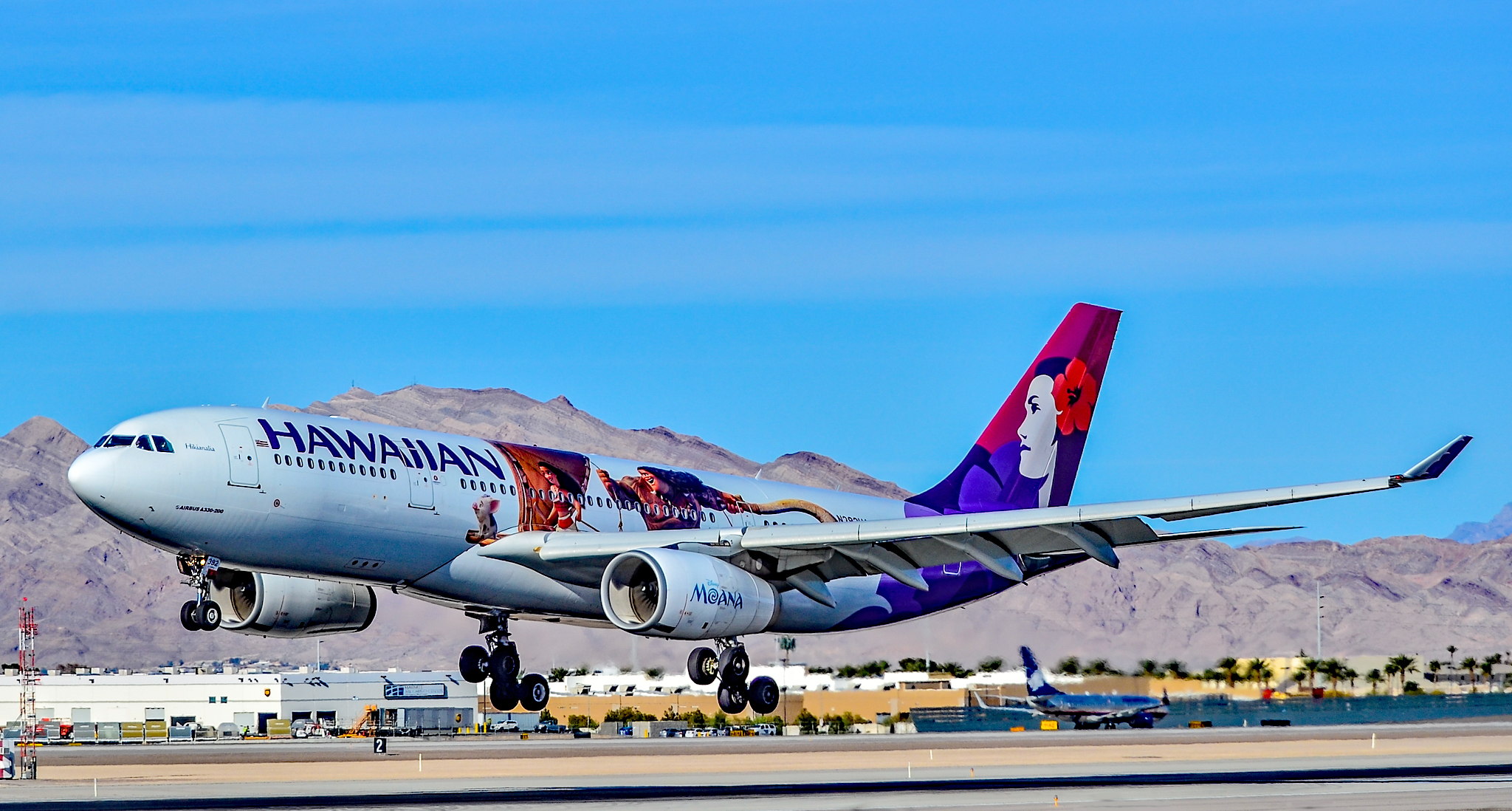 Hawaiian Airlines Airbus A330-243 (N392HA) Moana logojet landing at McCarran Airport